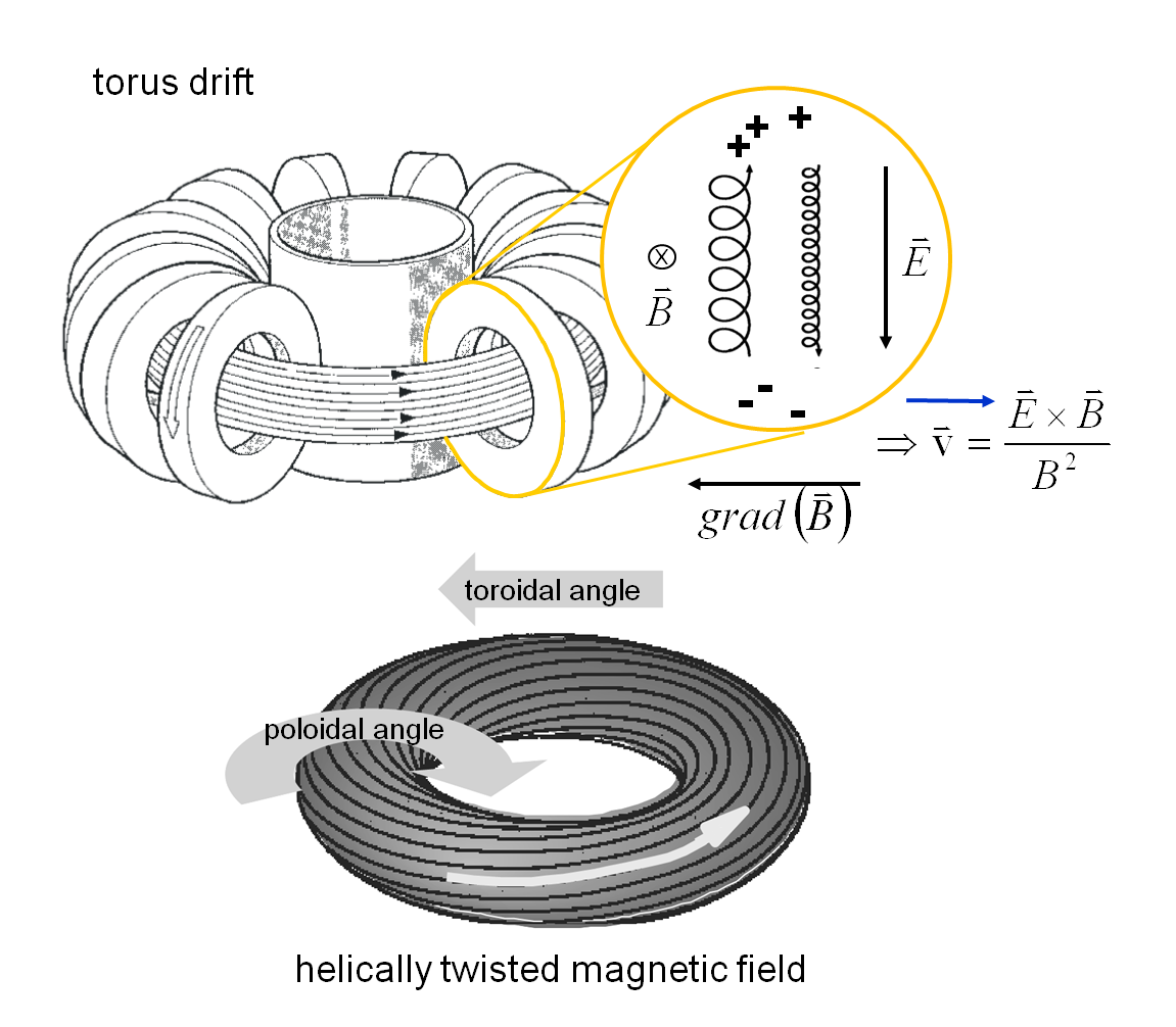 Schematic description of the torus drift: Particles in toroidal magnetic plasma confinement devices as they are favoured for nuclear fusion experiments drift radially outward if a purely toroidal magnetic field is used. The way out are helically twisted magnetic field lines.